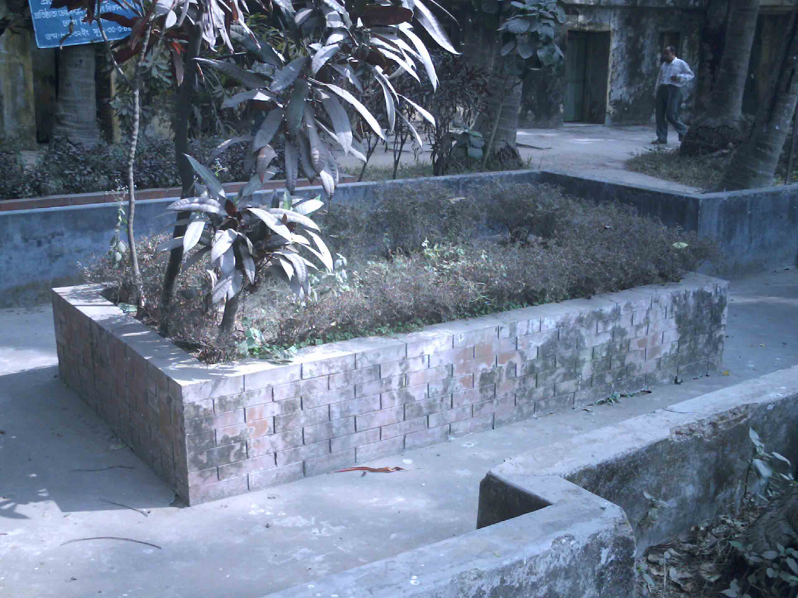 SOURCE: The picture was taken by me. Muntasir du 14:12, 5 February 2007 (UTC) Location: Dhaka University